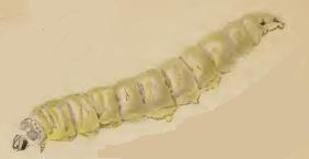 Stainton’s Natural History of the Tineina (1855–1873): Aspilapteryx tringipennella